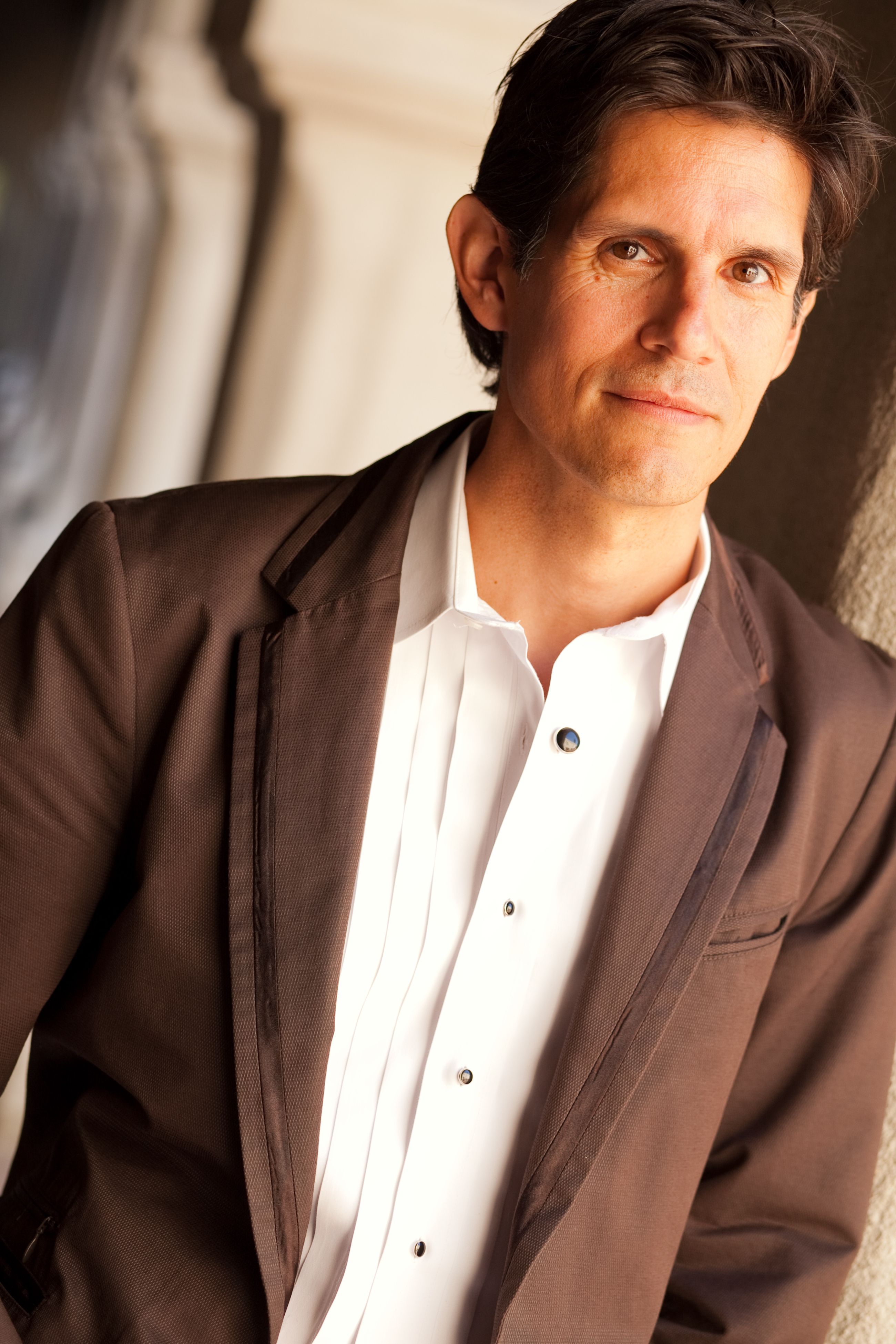 A recent photo of author and speaker Patrick Combs